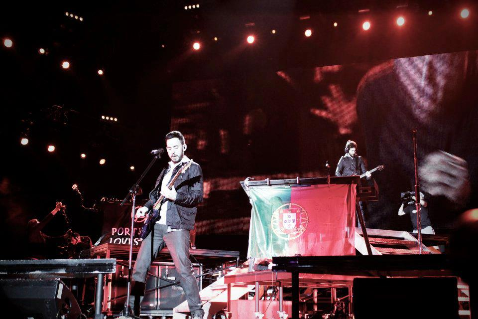 Linkin park live at Rock in Rio 2012 Portugal